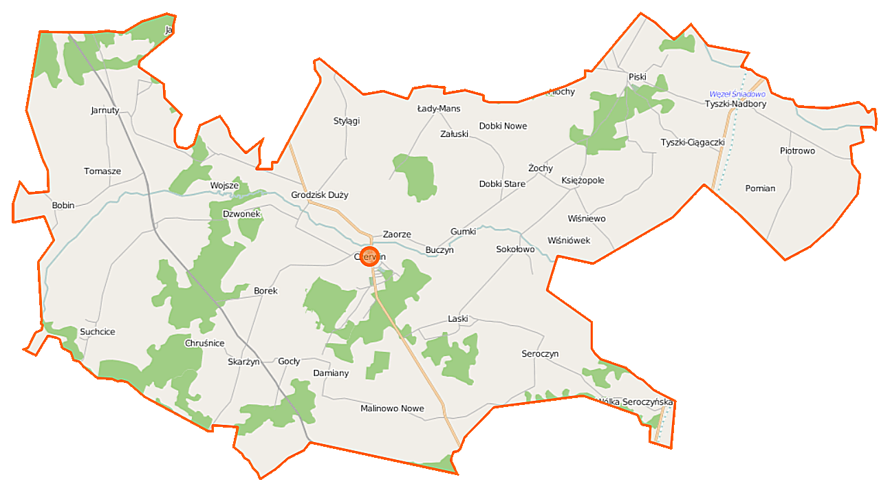 Map of Gmina Czerwin, Poland This map of Czerwin (gmina) was created from OpenStreetMap project data, collected by the community. This map may be incomplete, and may contain errors. Don't rely solely on it for navigation. Border coordinates53.011121.6108←↕→21.966152.8919